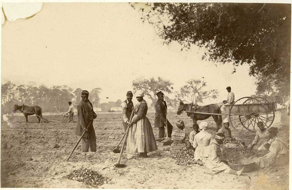 "Contraband" sweet potato planting, Hopkinson's Plantation, Edisto Island, S.C. May 1862